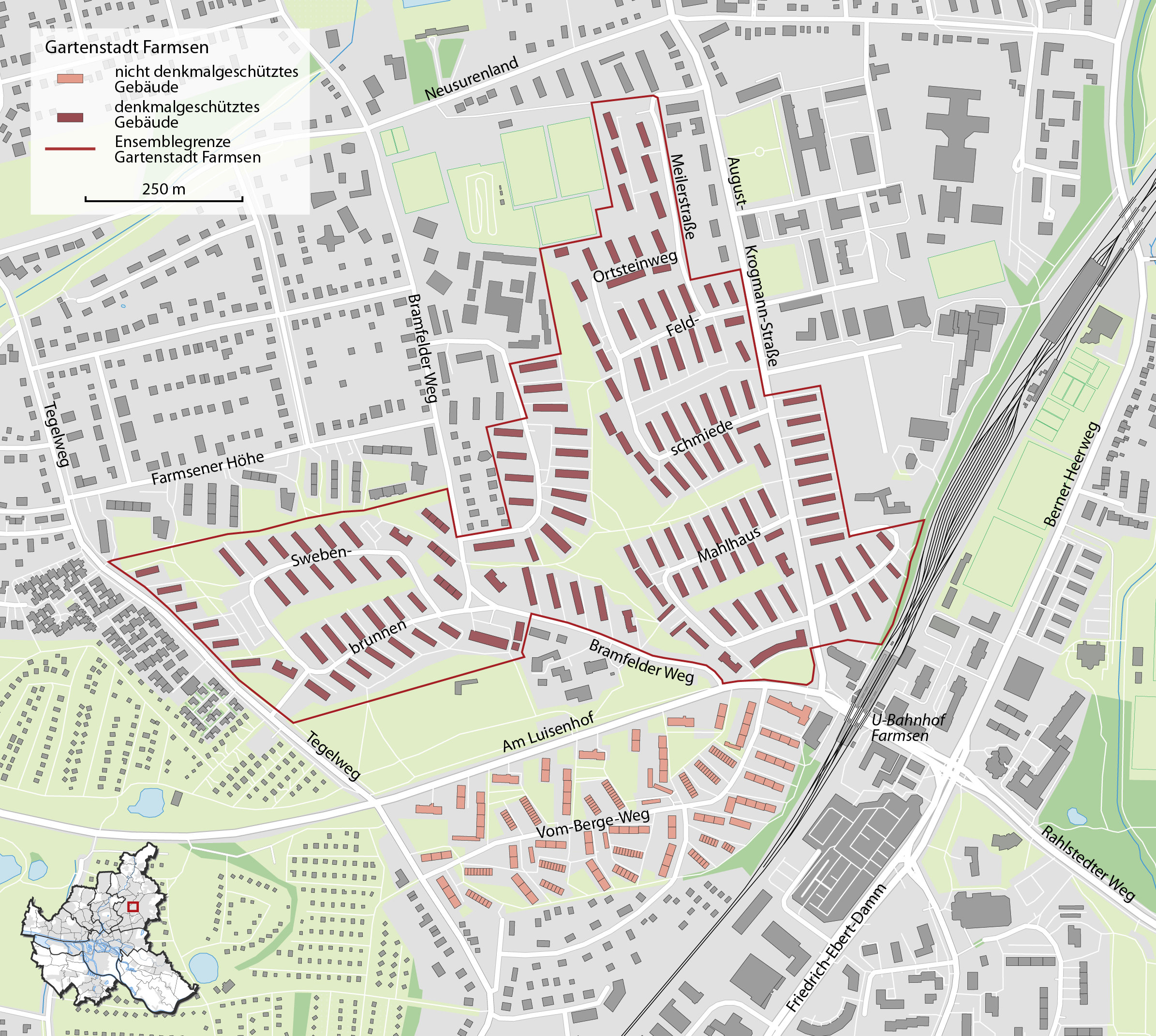 Map of Gartenstadt Farmsen in Hamburg-Farmsen-Berne